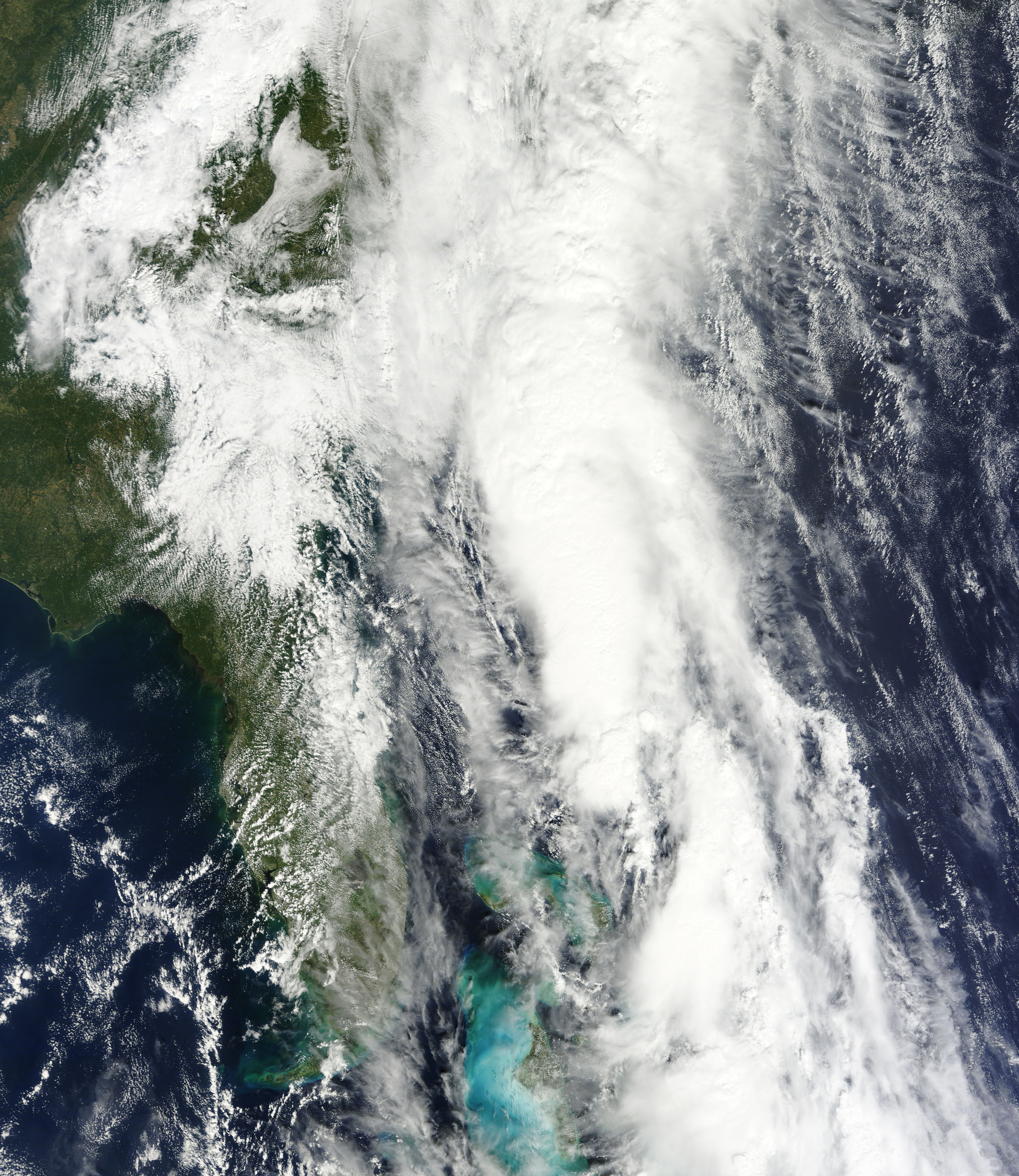 Ex-Tropical Storm Nicole